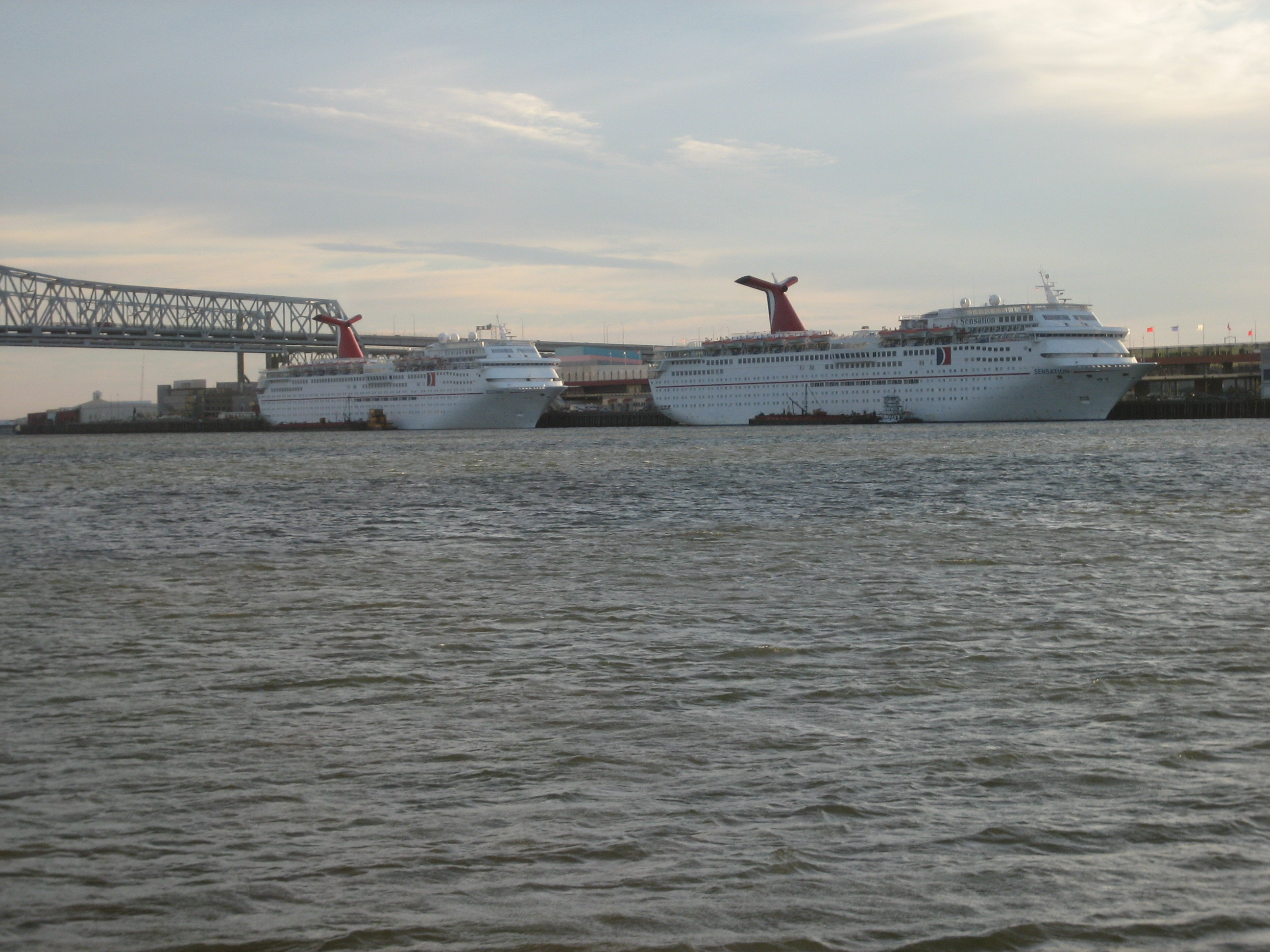 New Orleans after Hurricane Katrina: View on Algiers Ferry crossing the Mississippi River; 3 cruise ships house police and other emergency workers whose houses were rendered uninhabitable by the storm and flooding.